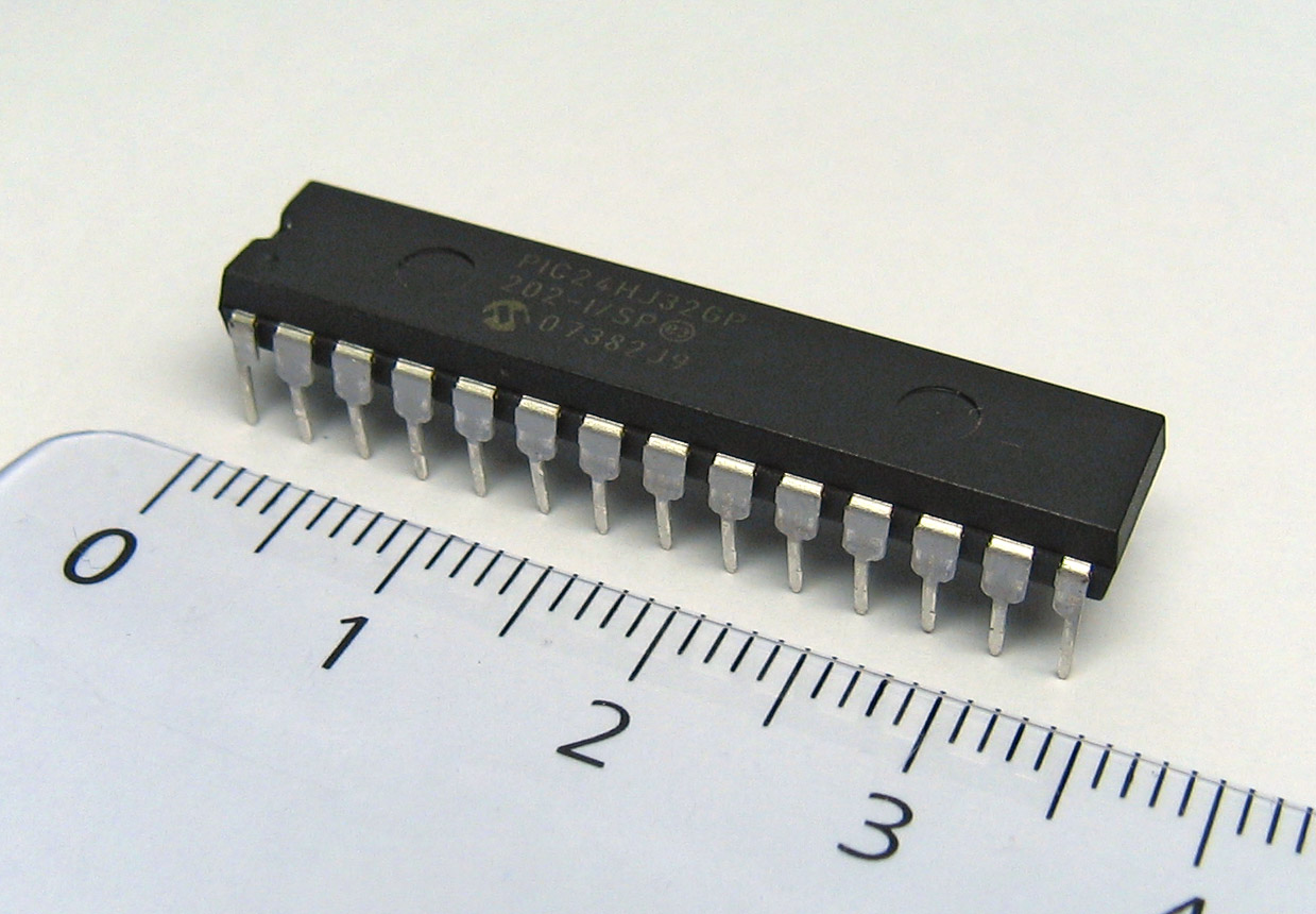 Photo of a Microchip PIC24HJ32GP202 16-bit 28-pin microcontroller and a metric ruler.